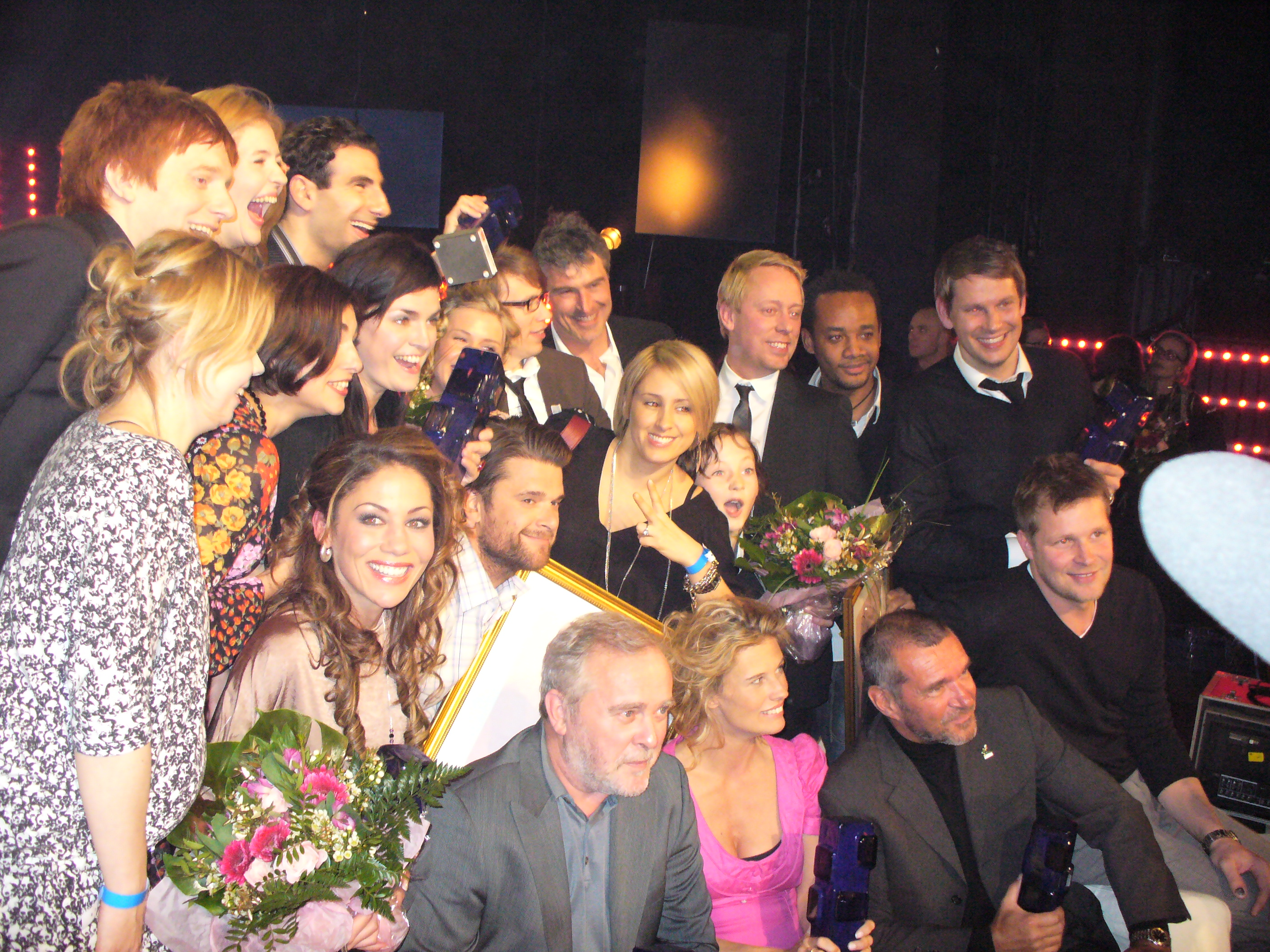 Winners of Aftonbladet TV Awards 2007